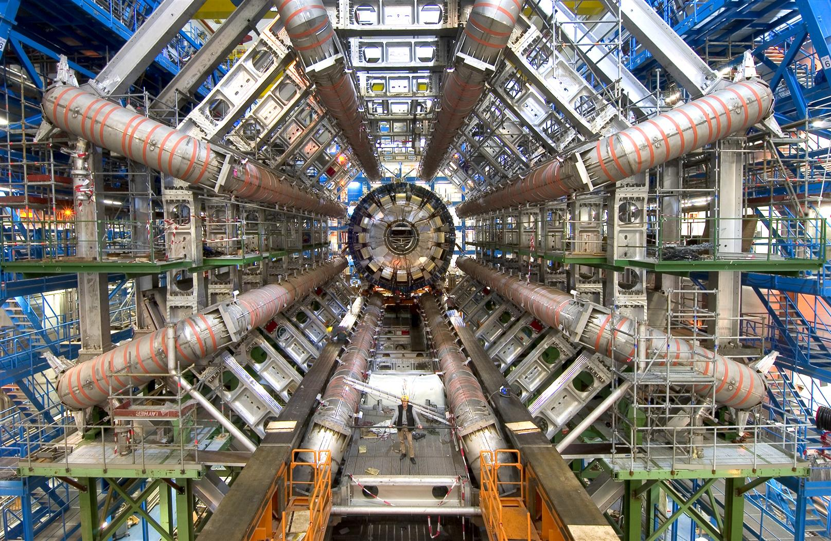 ATLAS experiment at CERN before installing the calorimeter. The eight toroid magnets can be seen surrounding the calorimeter that is later moved into the middle of the detector. This calorimeter measure the energies of particles produced when protons collide in the centre of the detector.